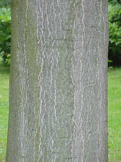 Species: Ailanthus altissima Family: Simaroubaceae Image No. 6